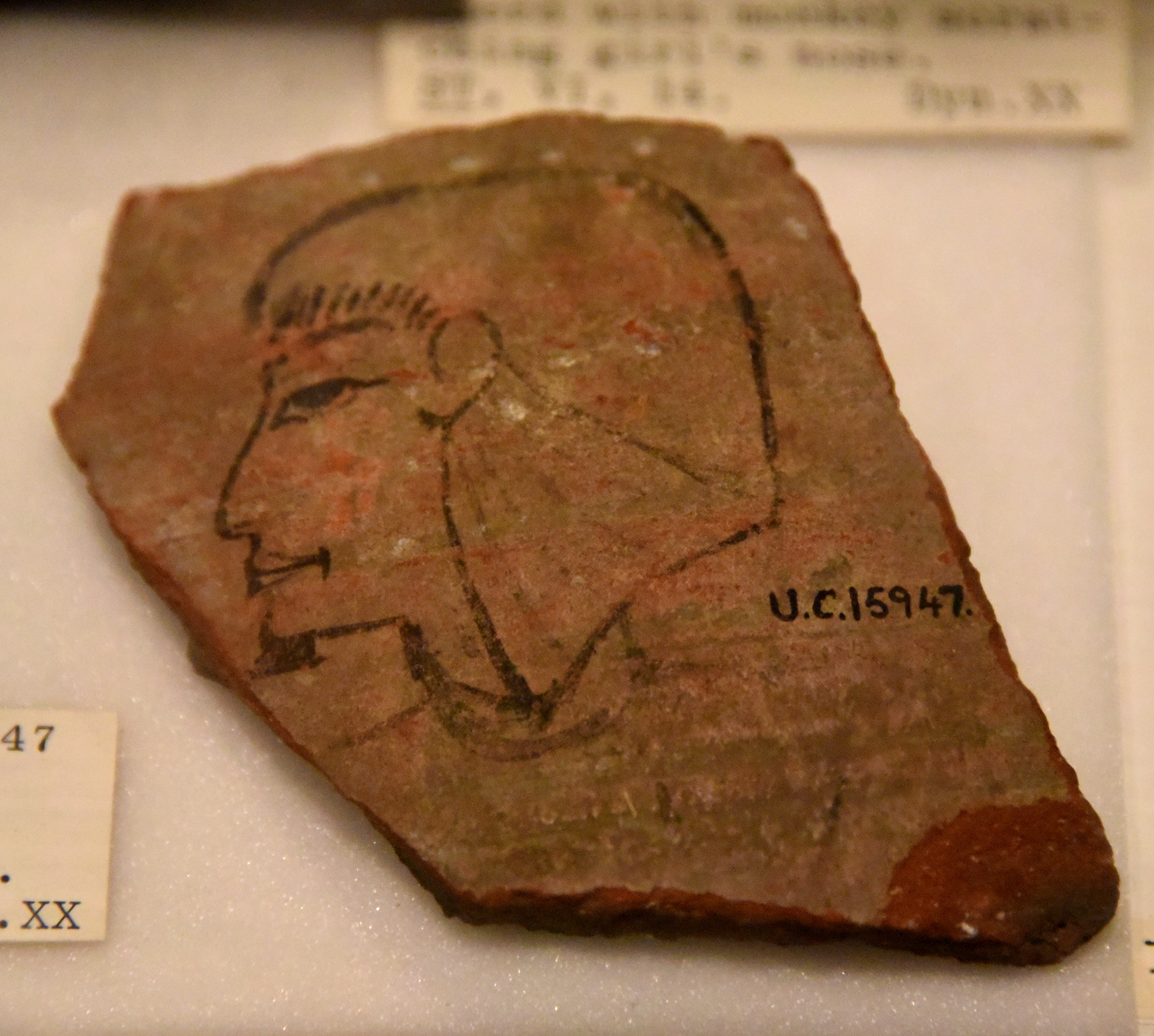 20th Dynasty. From the so-called Artists' School at Ramesseum, Thebes, Egypt. The Petrie Museum of Egyptian Archaeology, London. With thanks to the Petrie Museum of Egyptian Archaeology, UCL.